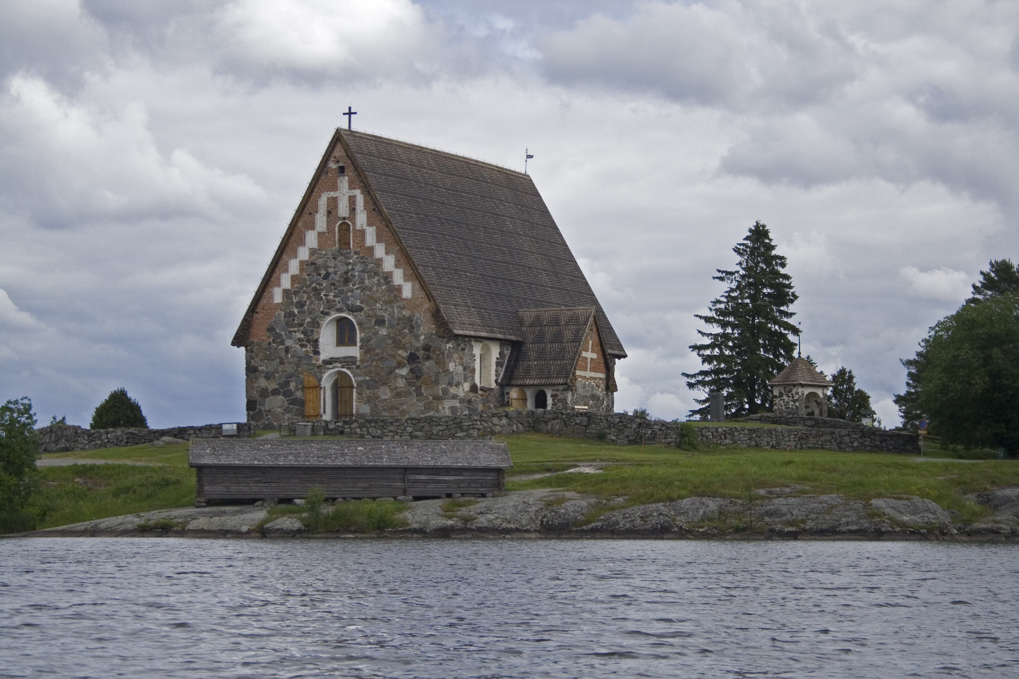 St. Olaf's Church, view from lake side